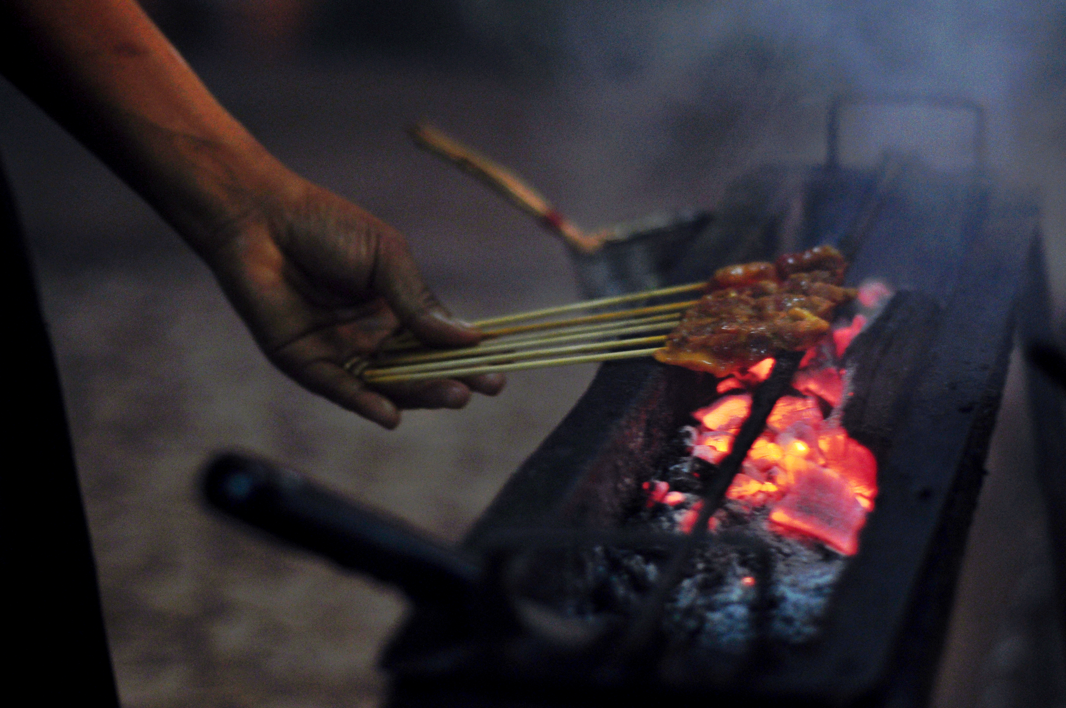 Satay being cooked on a grill. Photo taken in one of the Tanjung Aru beach food stalls. Sabah, Malaysia.